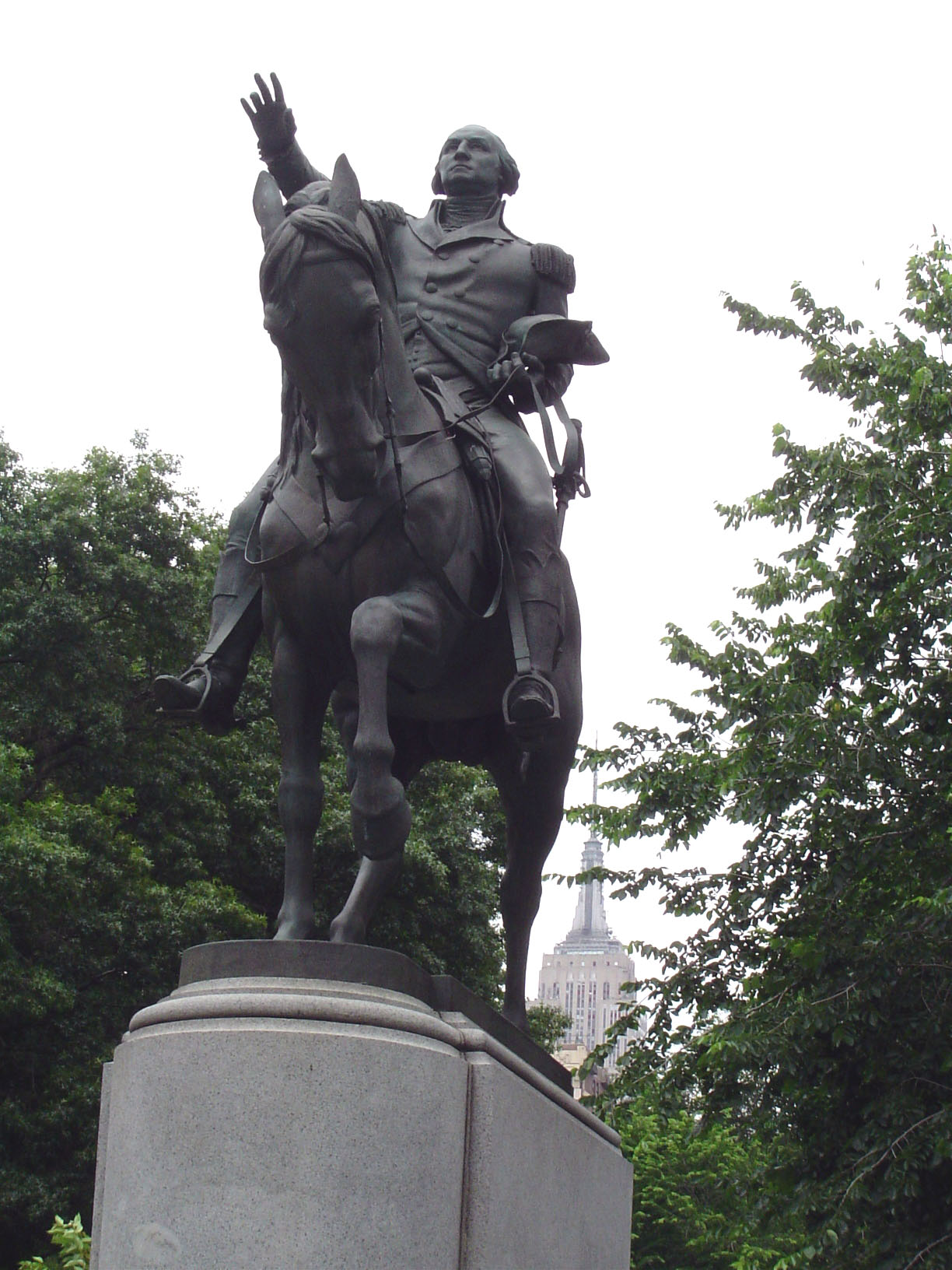 Equestrian George Washington, Henry Kirke Brown, 1856. Statue at Union Square, New York City.